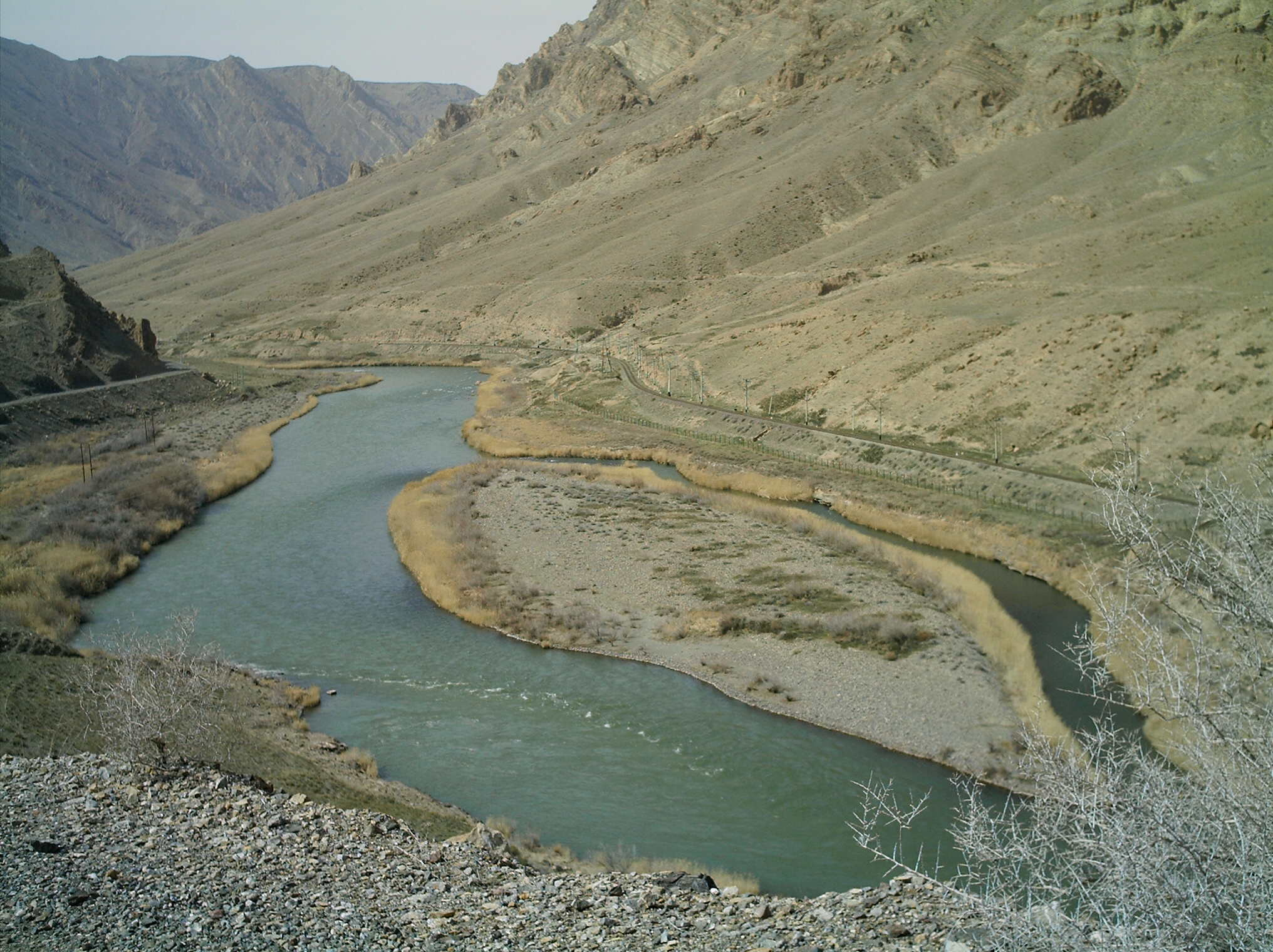 Aras river in the vicinity of Julfa-Iran (Left hand Iran - Right Hand Nakhichevan) - March 2006